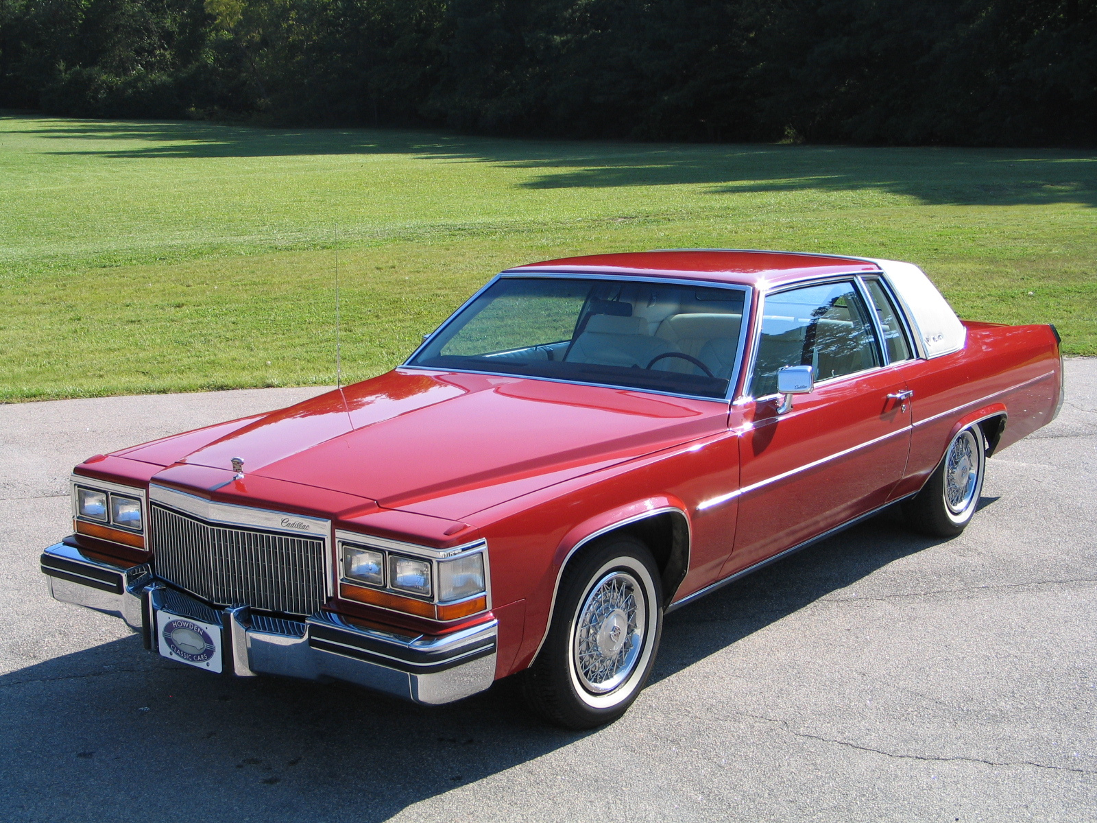 Right click on the photo to select a larger image to view.